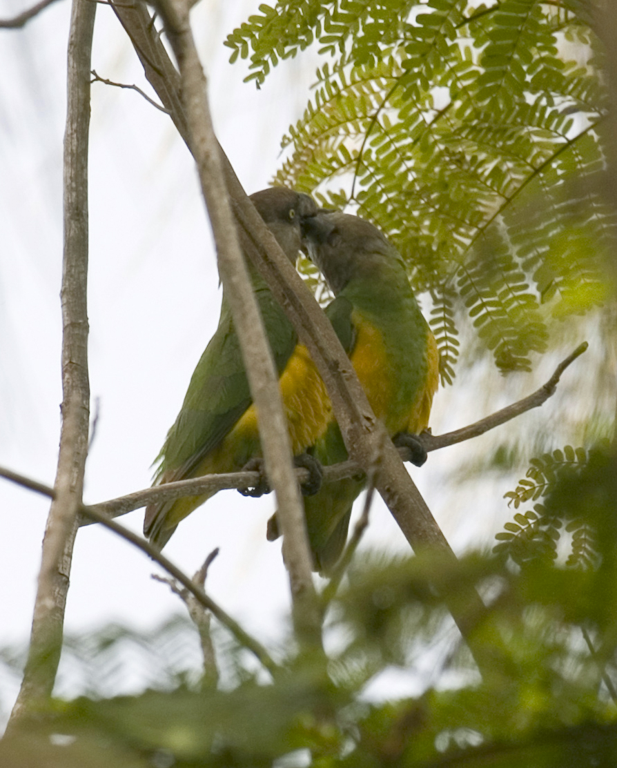 A pair of Senegal Parrots in a tree. One parrot (probably the male) is feeding the other (probably the female). Thomas J. Haslam, On 24 February 2007, I took the photos for this montage at the birding site Technopole in Dakar, Senegal. Licensed to Wikipedia under CC-BY 2.5 and GFDL. Published to my Flickr account under the same license.